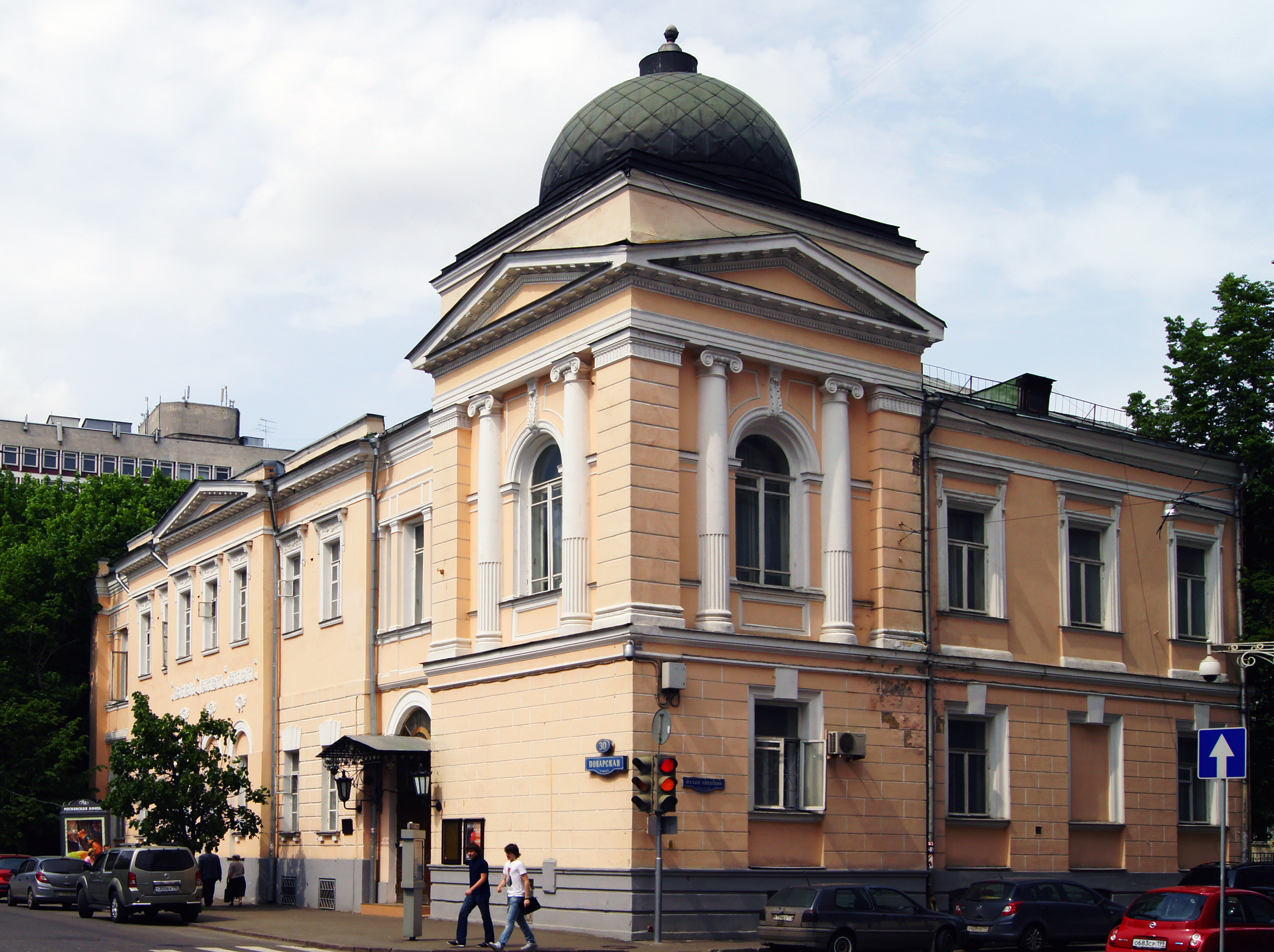 Povarskaya Street Moscow 30-36